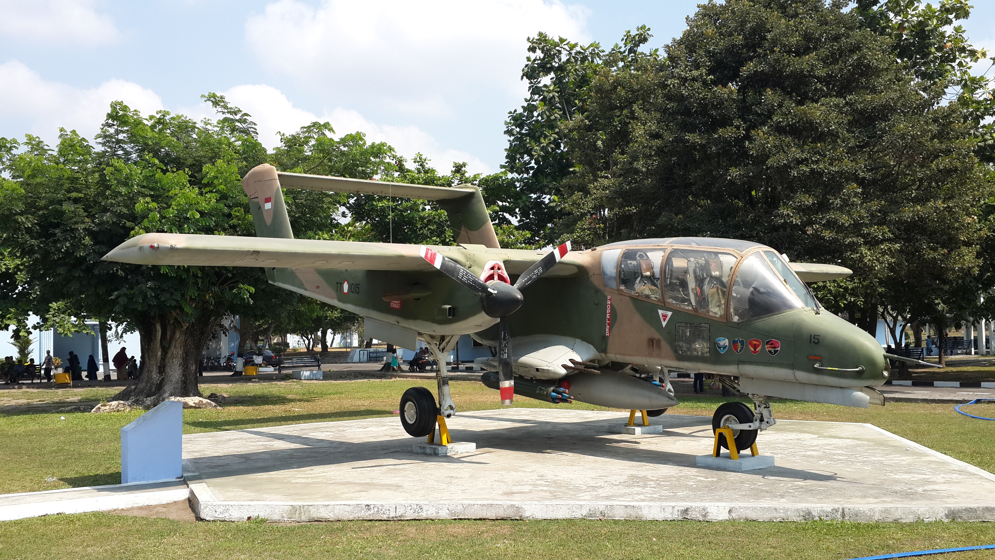 North American Rockwell OV-10 Bronco at the Indonesian Air force Museum, Yoygyakarta